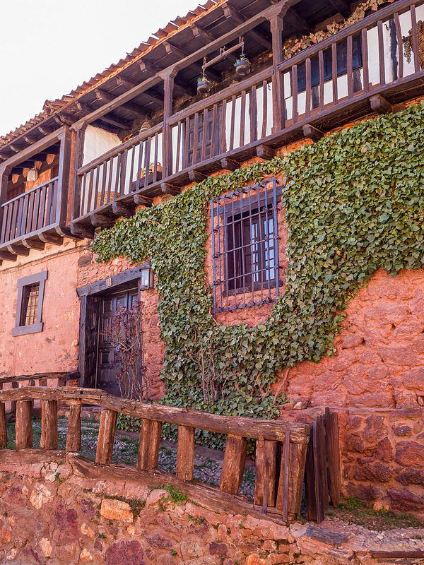 Arquitectura típica en Madriguera, pueblo rojo. Ruta de los pueblos rojos, negros y amarillos. Segovia.